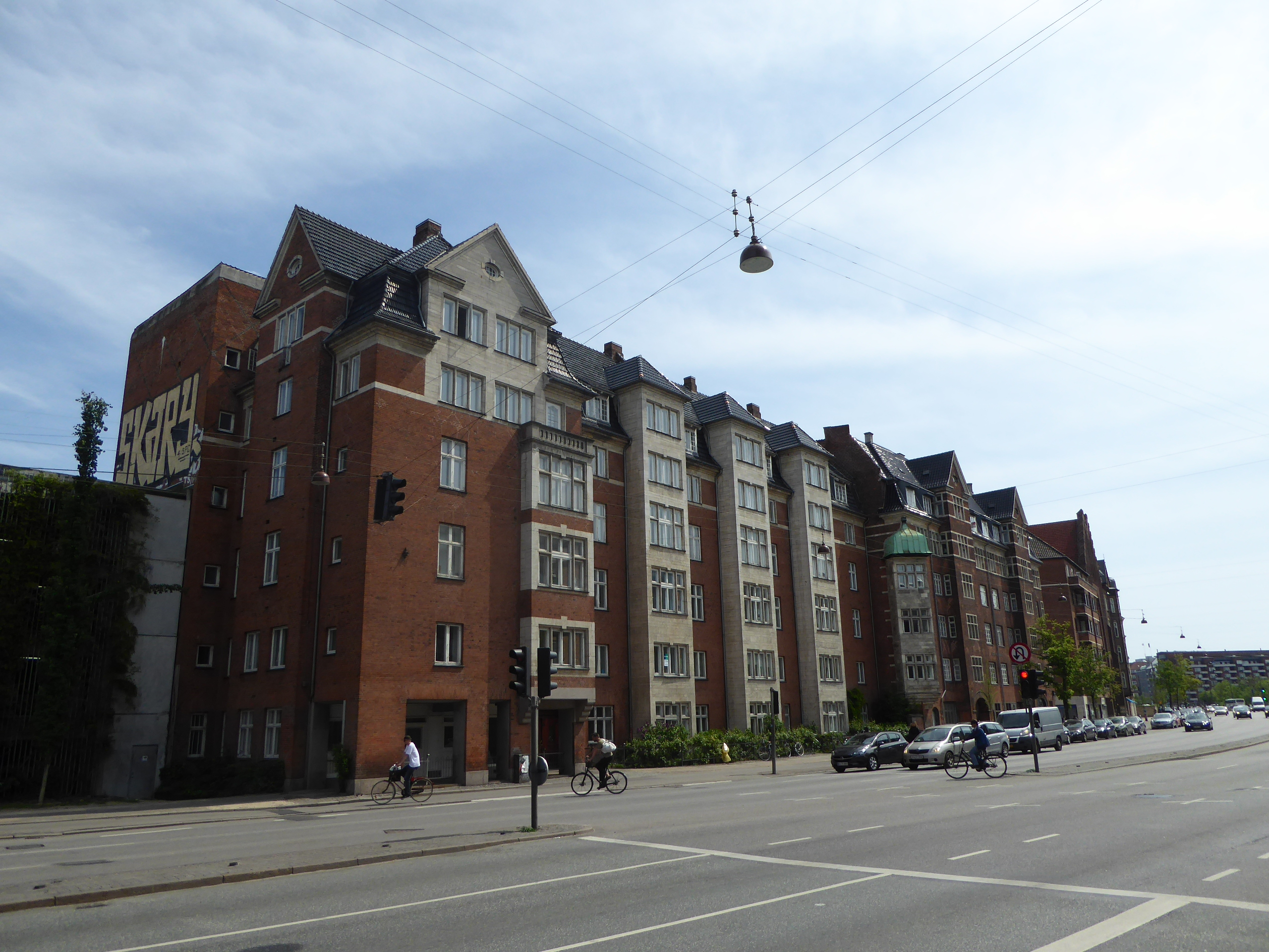 The buildings Åhusene at Åboulevard in Nørrebro in Copenhagen.